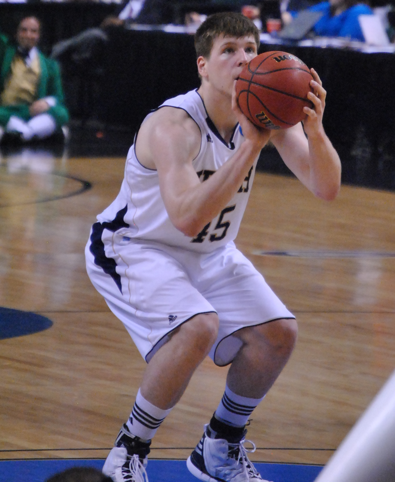 Jack Cooley at the Free Throw Line for the Fighting Irish